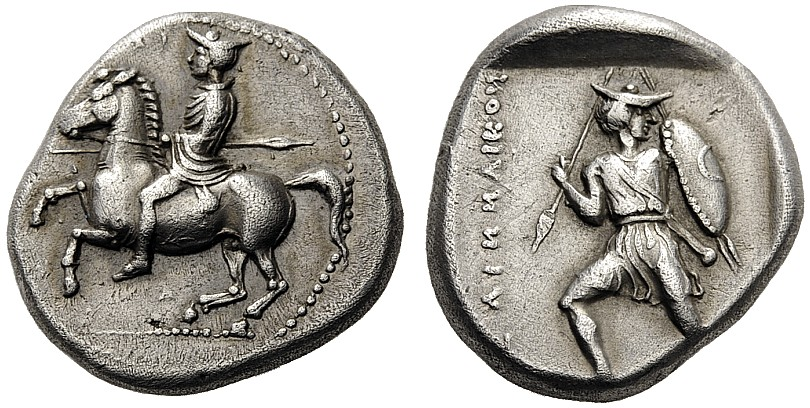 THESSALY, Pelinna. First half of the 4th century BC, or earlier, perhaps the last quarter of the 5th. Drachm (Silver, 18mm, 6.20 g 10). Thessalian cavalryman, wearing petasos and chlamys, and holding a spear pointing backwards, riding to left on galloping horse; above, in tiny letters, ΑΙ; below horse, Α. Rev. [Π]ΕΛΙΝΝΑΙΚΟΝ (Νs retrograde) Warrior advancing left, his head turned back to right, wearing petasos and chlamys and with a sword in a scabbard held by a baldric, holding short spear in his right hand and a round shield, ornamented with a crescent, and two other spears in his left.